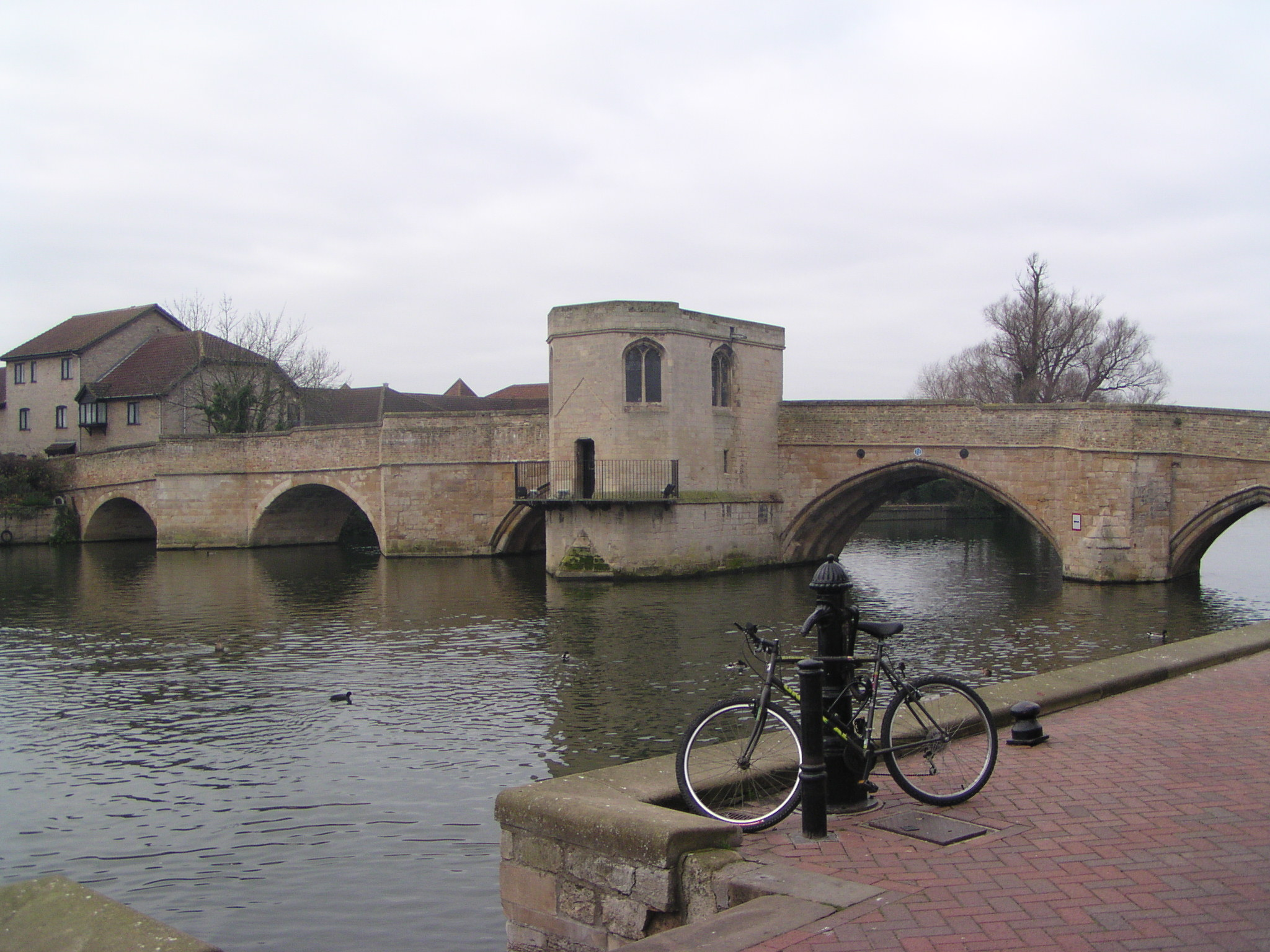 St Ives Bridge